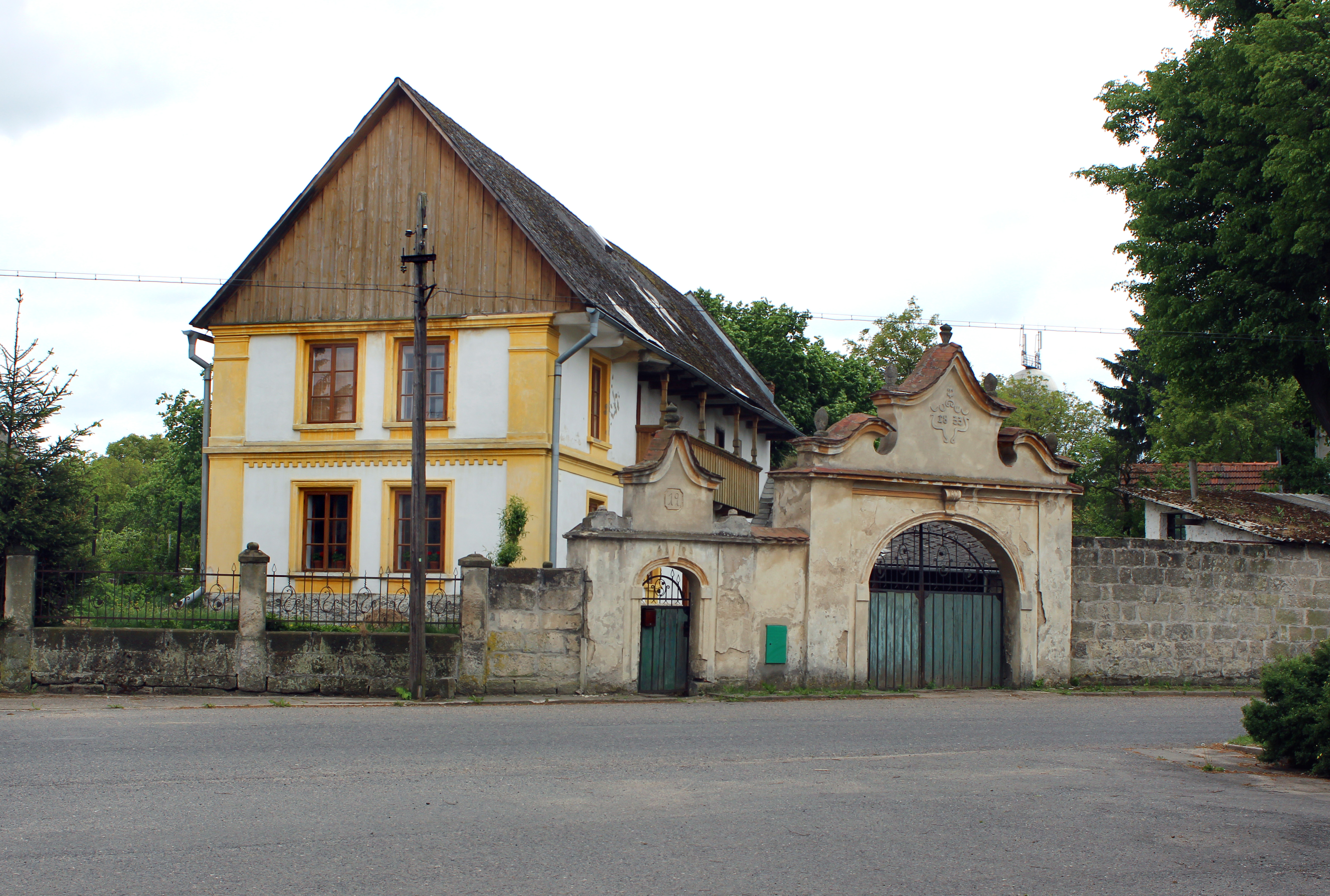 Old farm in Skalsko, Czech Republic